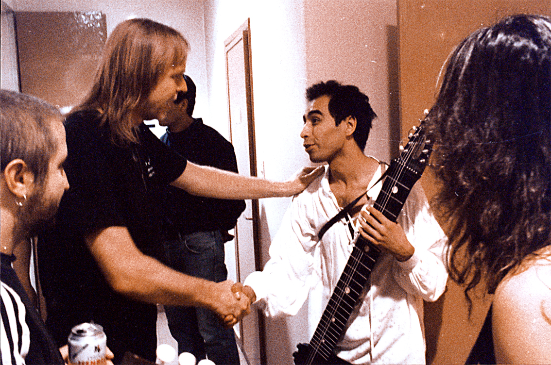 Guillermo Cides